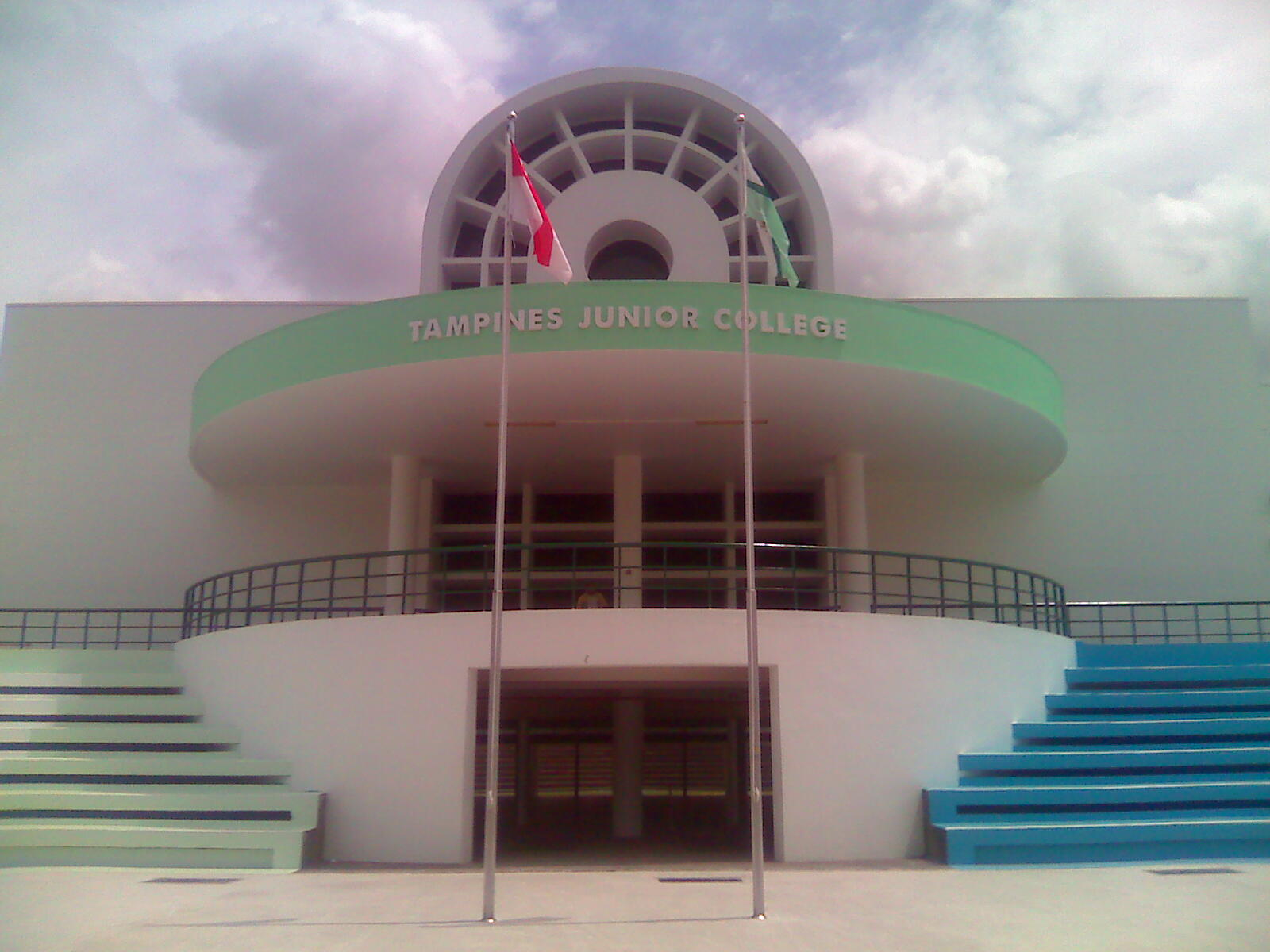 The stage at the tpjc stadium